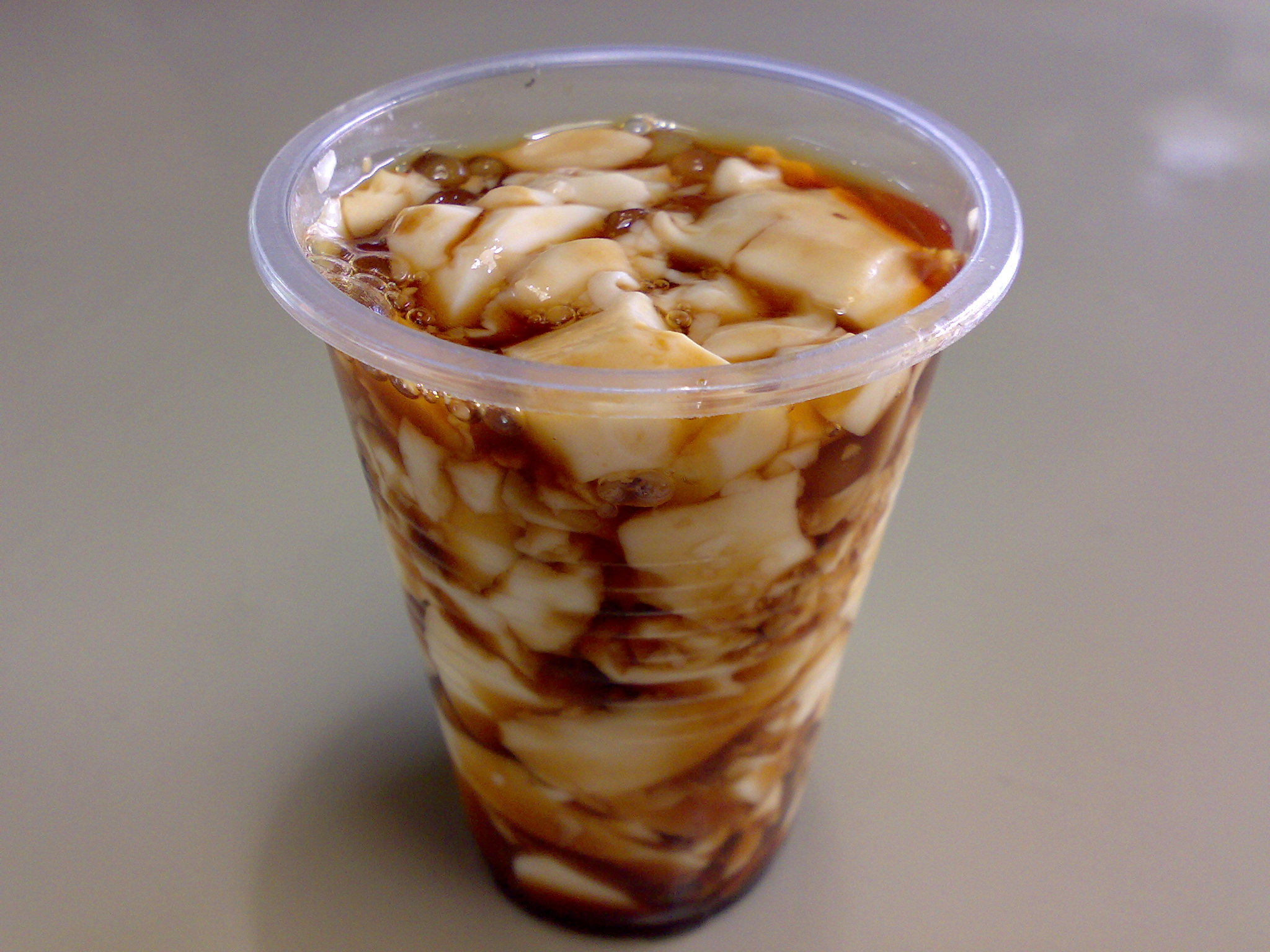 A 5-peso (about 11 cents USD) cup of Taho.